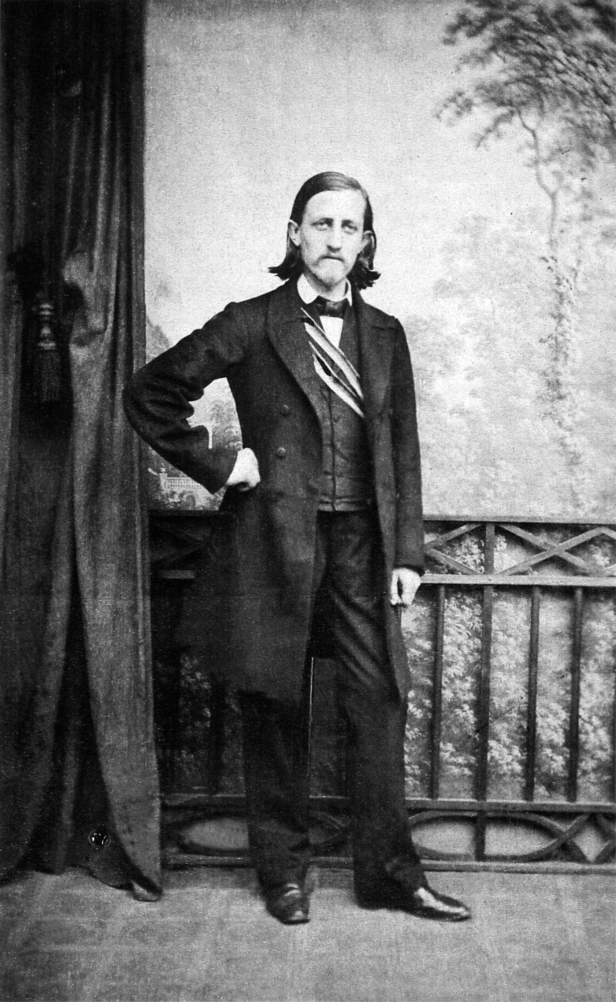 Portrait of of Ludwig Bickell as a student